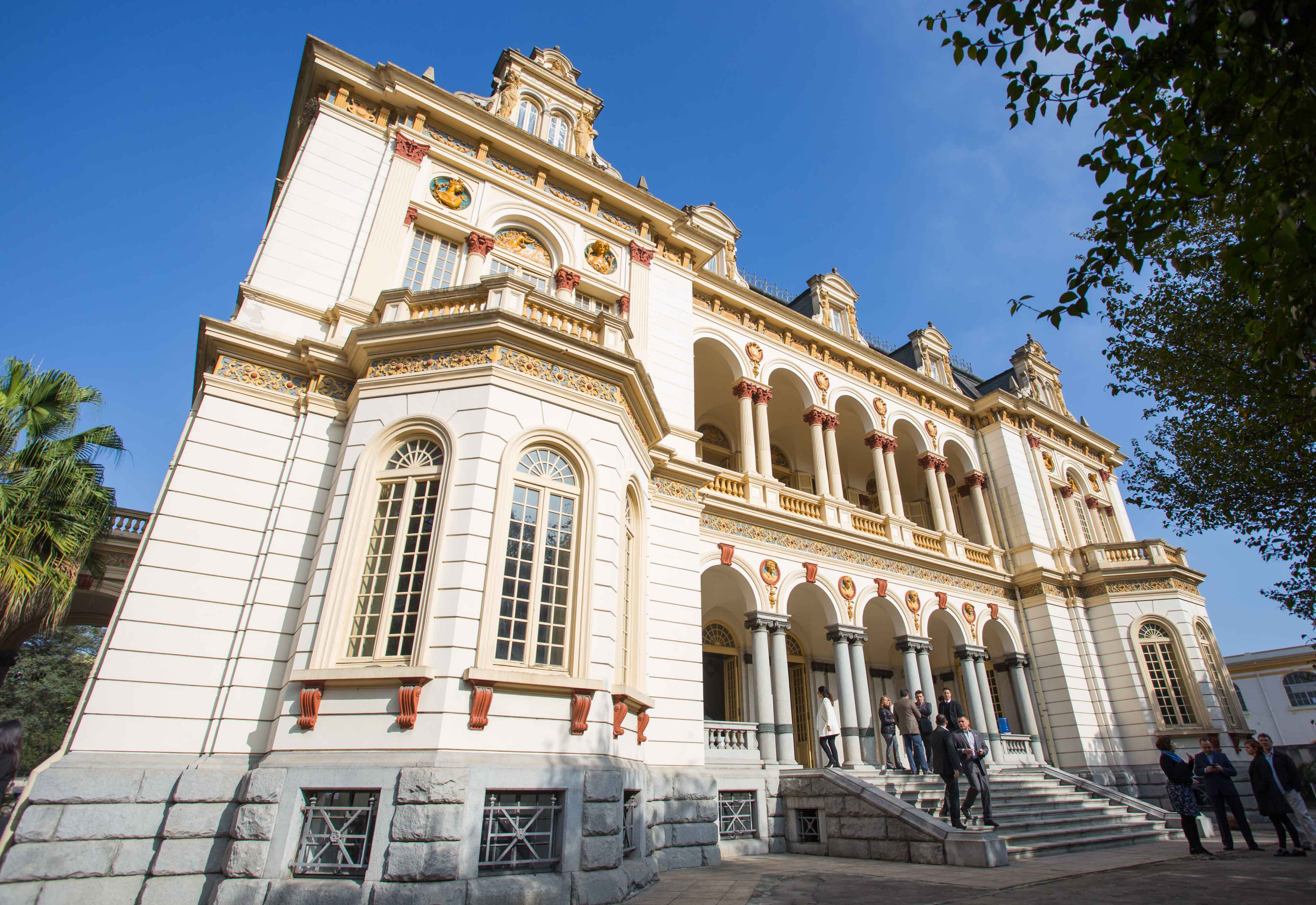 O Governador Geraldo Alckmin, participa de assinatura de Convênio entre o Governo do Estado de SP e o SEBRAE-SP para permissão do uso do Palácio Campos Elíseos .DATA 14/07/2017. LOCAL: São Paulo/SP. FOTO: Diogo Moreira